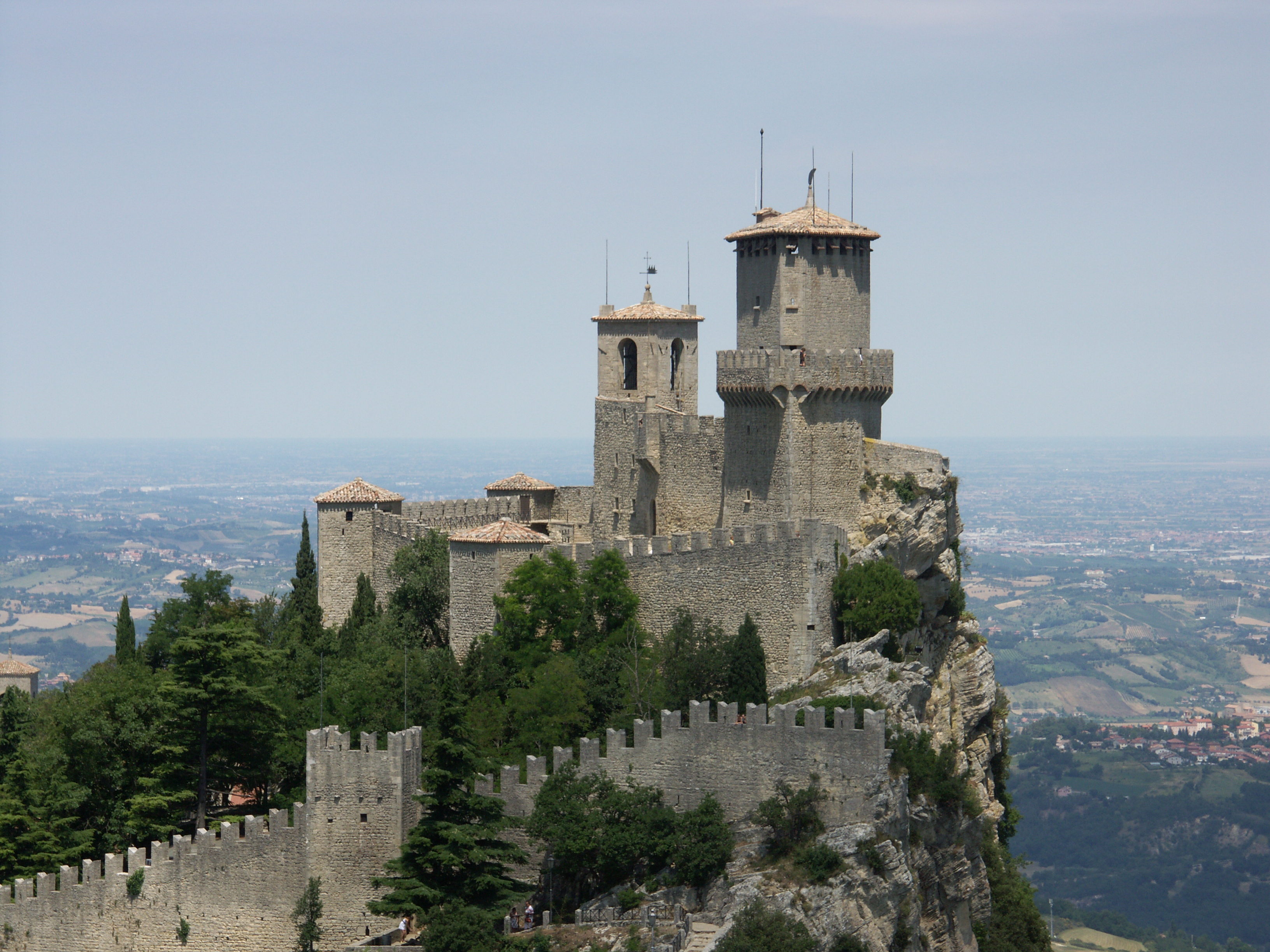 Guaita castle, San Marino